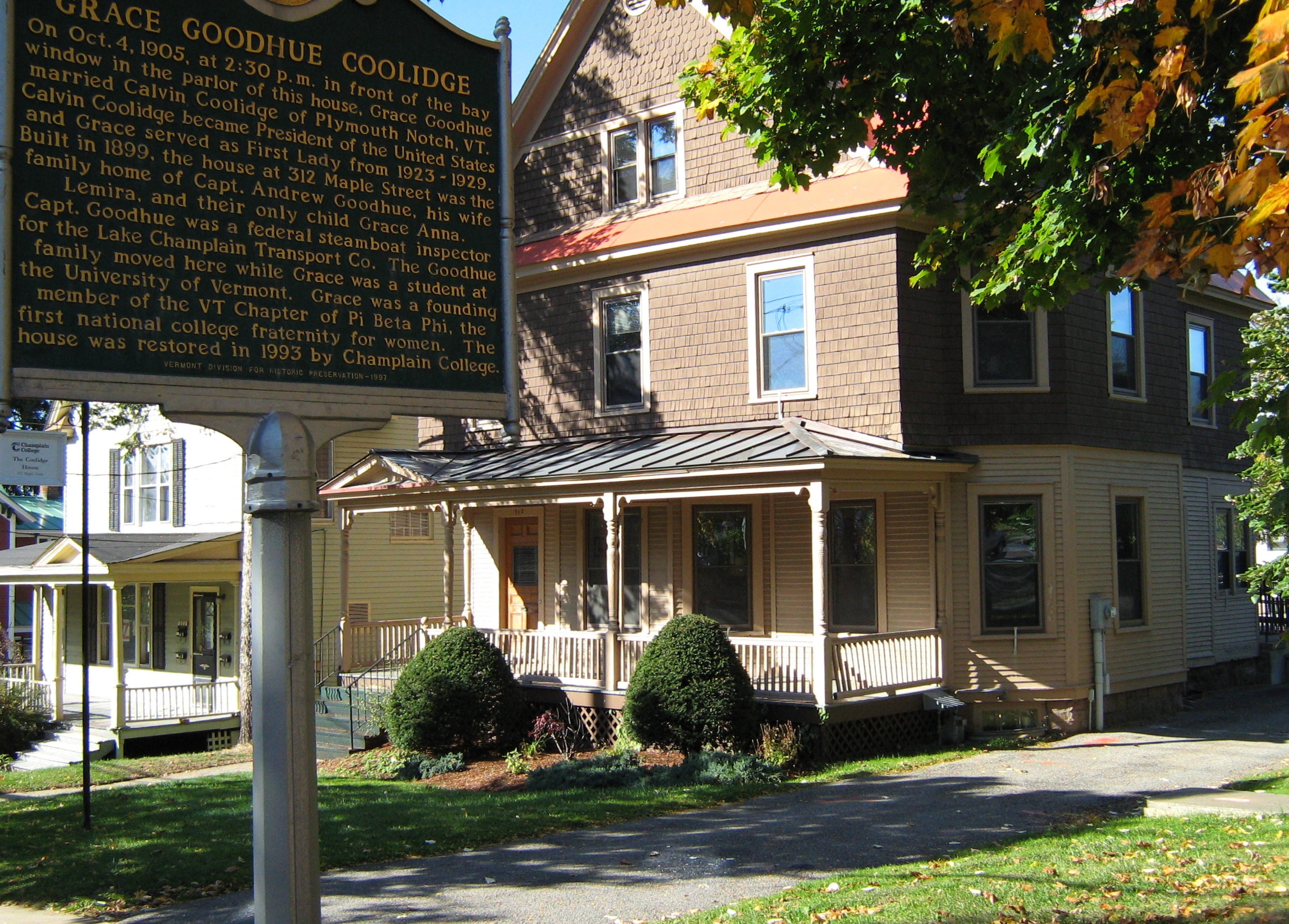 Home of Grace Goodhue. She was married to future president Calvin Coolidge in the front parlor.